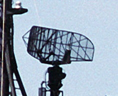 AN/SPS-10 radar antenna A view of two macks on Knox class frigates moored at a pier. The smaller SPS-10 radar antenna sits above the SPS-40 antenna and forward of the macks are the Mark 68 fire control systems (FCS). A satellite receiving antenna is visible behind one of the macks. Location: NAVAL AIR STATION, NORFOLK, VIRGINIA (VA) UNITED STATES OF AMERICA (USA)